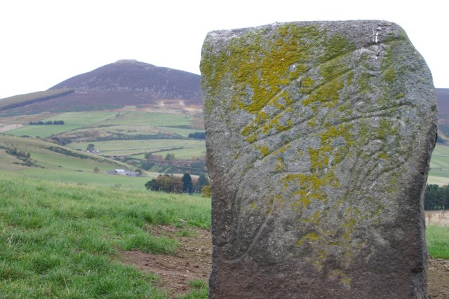 "Craw Stane" with Tap O'Noth in background One of many symbol stones found in this area with the Tap O'Noth in the background where evidence of iron age settlement can be found at the summit.